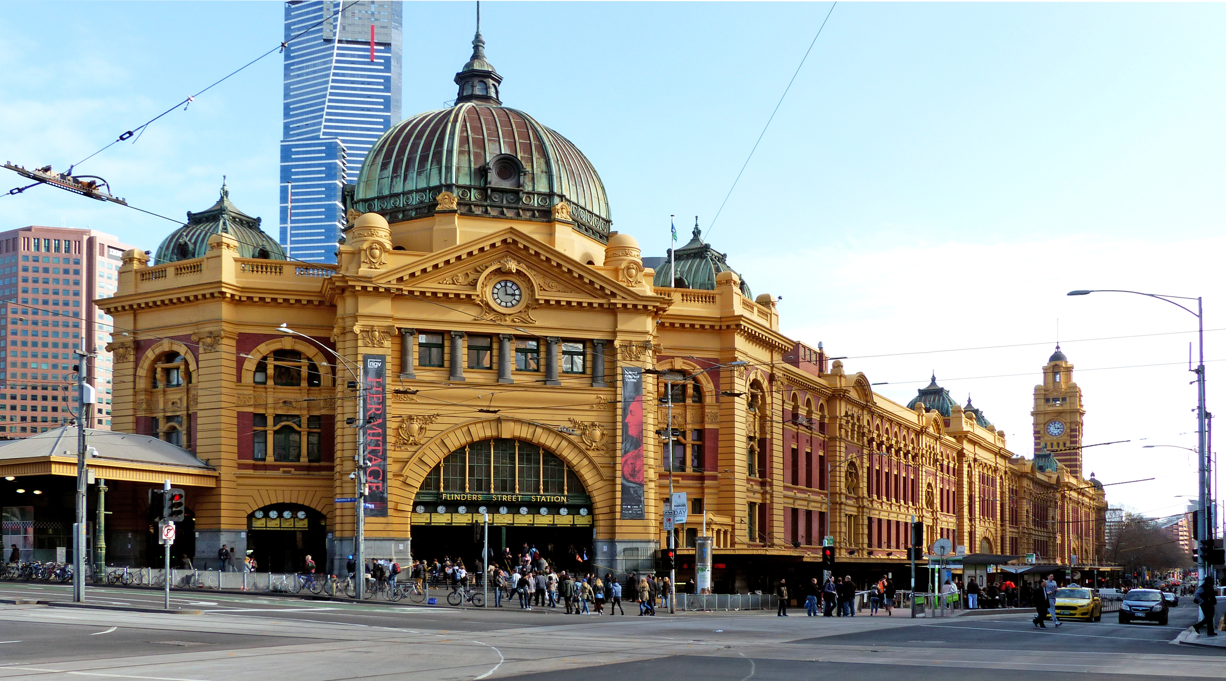 Before Federation Square took the honours, Flinders Street Station was Melbourne’s favourite meeting place, hence the catchphrase ‘meet me under the clocks’. Flinders Street Station is Australia’s oldest train station, and with its distinctive yellow facade and green copper dome it’s a city icon. Takeaway stands line the concourse, and the upper floors were purpose-built to house a library, gym and a lecture hall, later used as a ballroom. Flinders Street is the busiest suburban railway station in the southern hemisphere, with over 1500 trains and 110,000 commuters passing through each day. Listed on the Victorian Heritage Register, its 708-metre main platform is the fourth longest railway platform in the world.